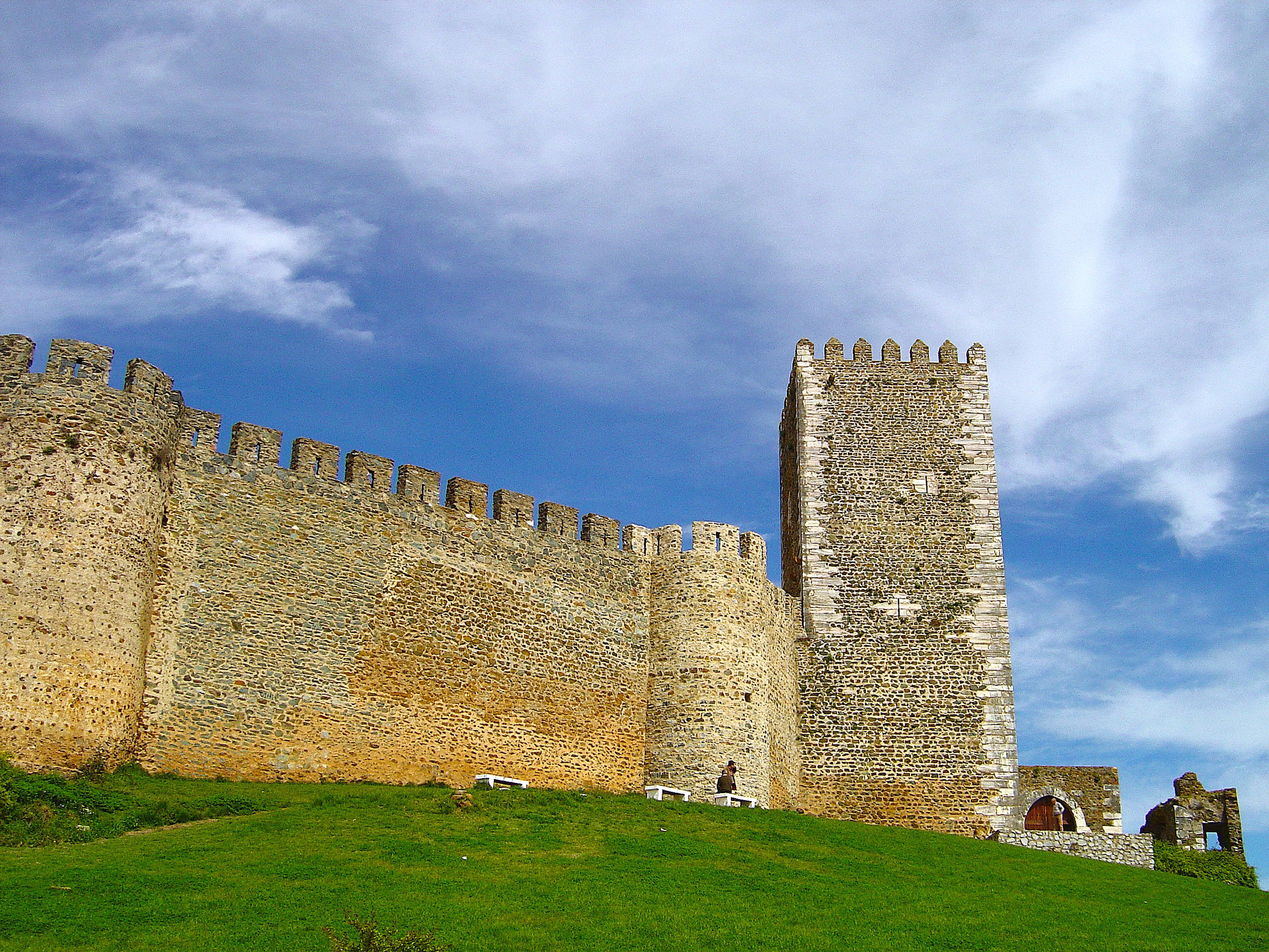 A view of the castle in the town of Portel, Alentejo , Portugal. This image was copied from pt. The original description was: Castelo de Portel, Portugal